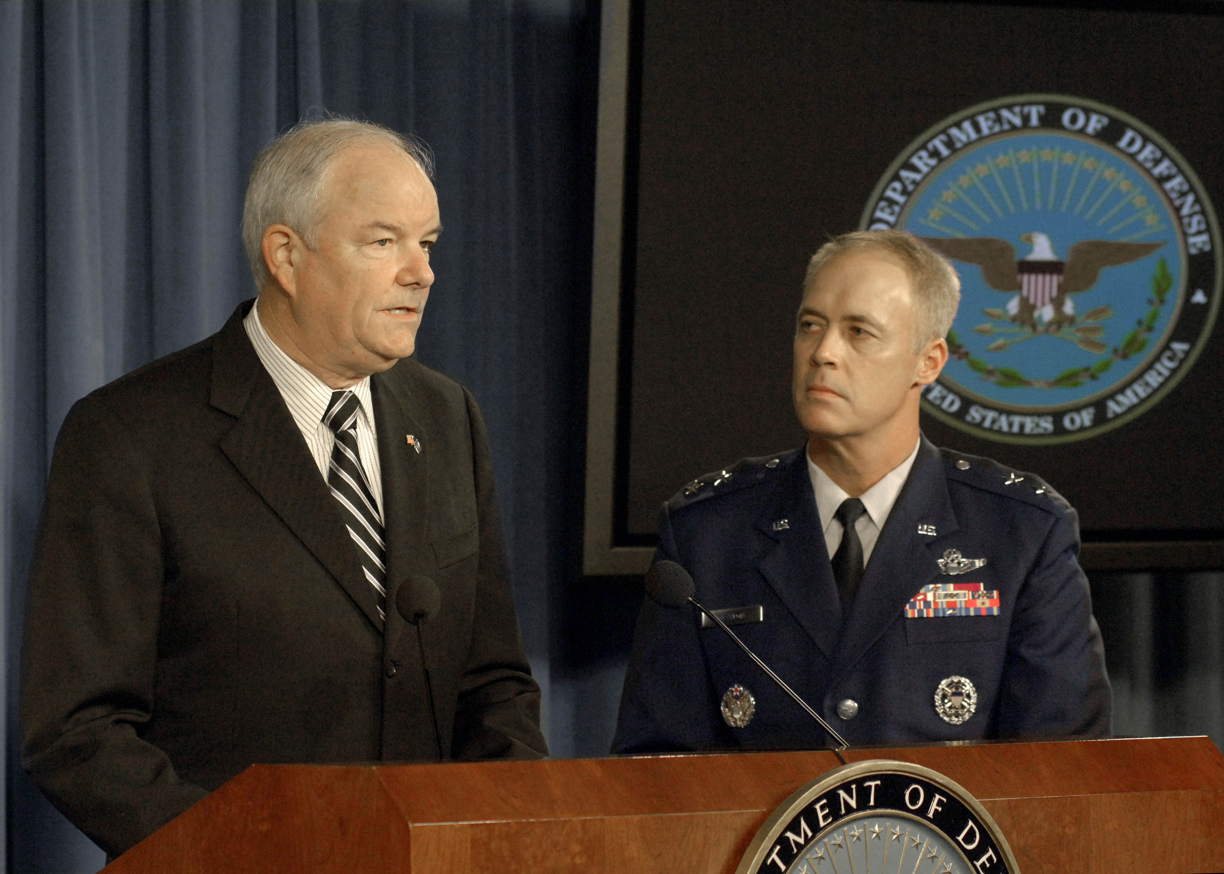 Secretary of the Air Force Michael W. Wynne (left) and Assistant Deputy Chief of Staff for Operations, Plans and Requirements Maj. Gen. Richard Newton, U.S. Air Force, conduct a press conference in the Pentagon on Oct. 19, 2007. Wynne and Newton briefed the press on the incident that occurred on Aug. 30, 2007, involving the mishandling of weapons at Minot Air Force Base, N. D.